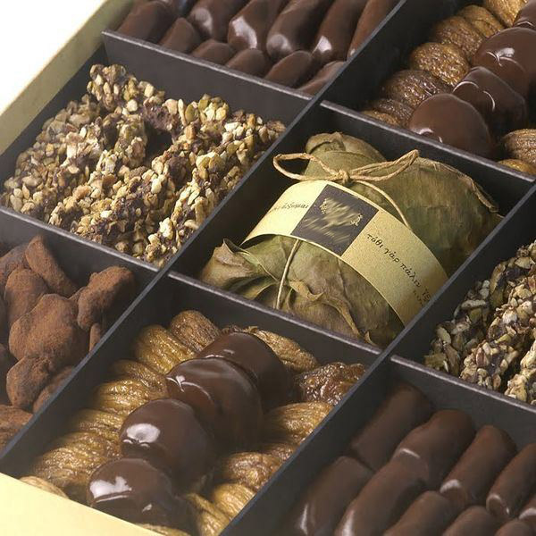 Fichi bianchi del cilento, Italia